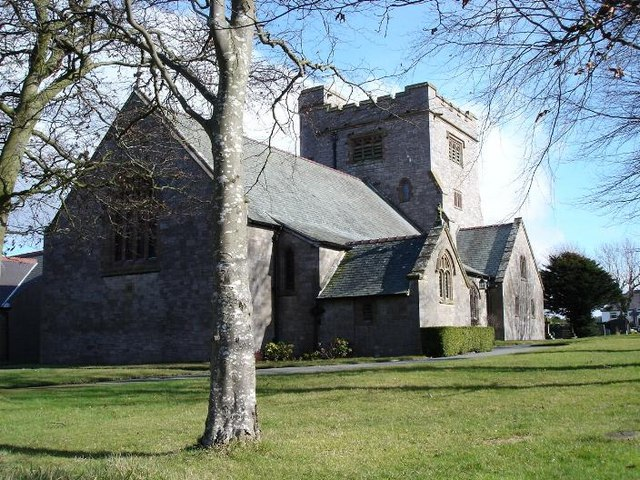 Christ Church parish church, Bryn-y-maen, Denbighshire, Wales, seen from east-northeast. The foundation stone was laid on 4 May 1897. The Bishop of St Asaph consecrated the completed building on Tuesday 28 September 1899.